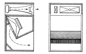 graphic image of a horn loudspeaker with three drivers and three horns